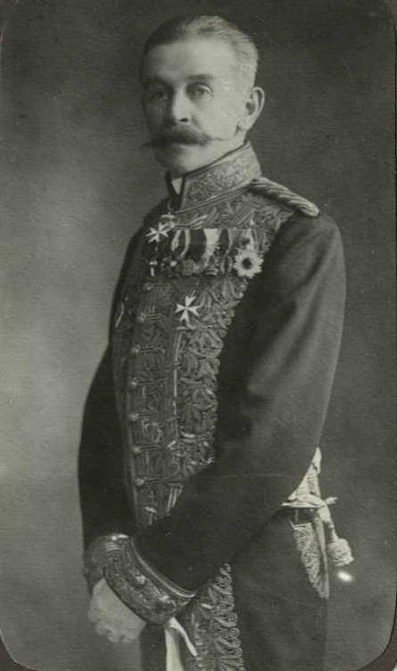 Axel Peter Eduard von Buxhoeveden (1856-1919)